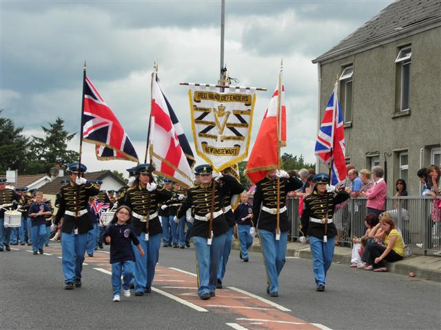 The Red Hand Defenders flute band parade in Newtownstewart during "The Twelfth" celebrations - 12th July 2010.